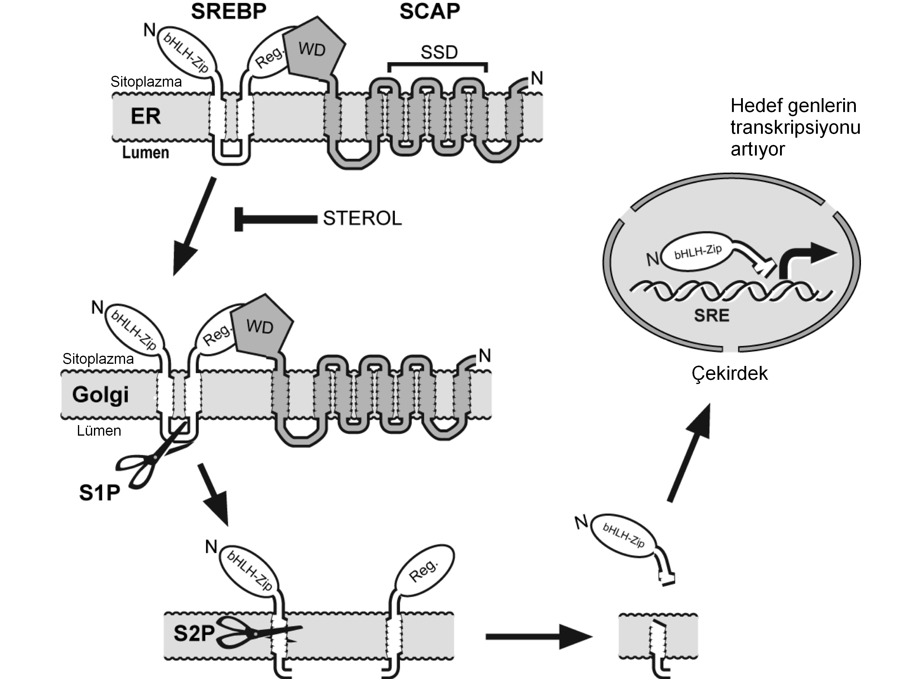 The SREBP regulatory pathway (Turkish labels)